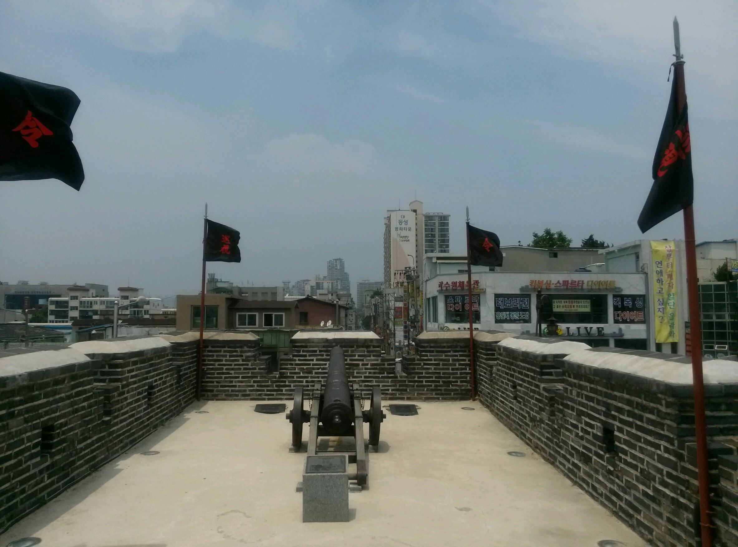 Hwaseong Fortress